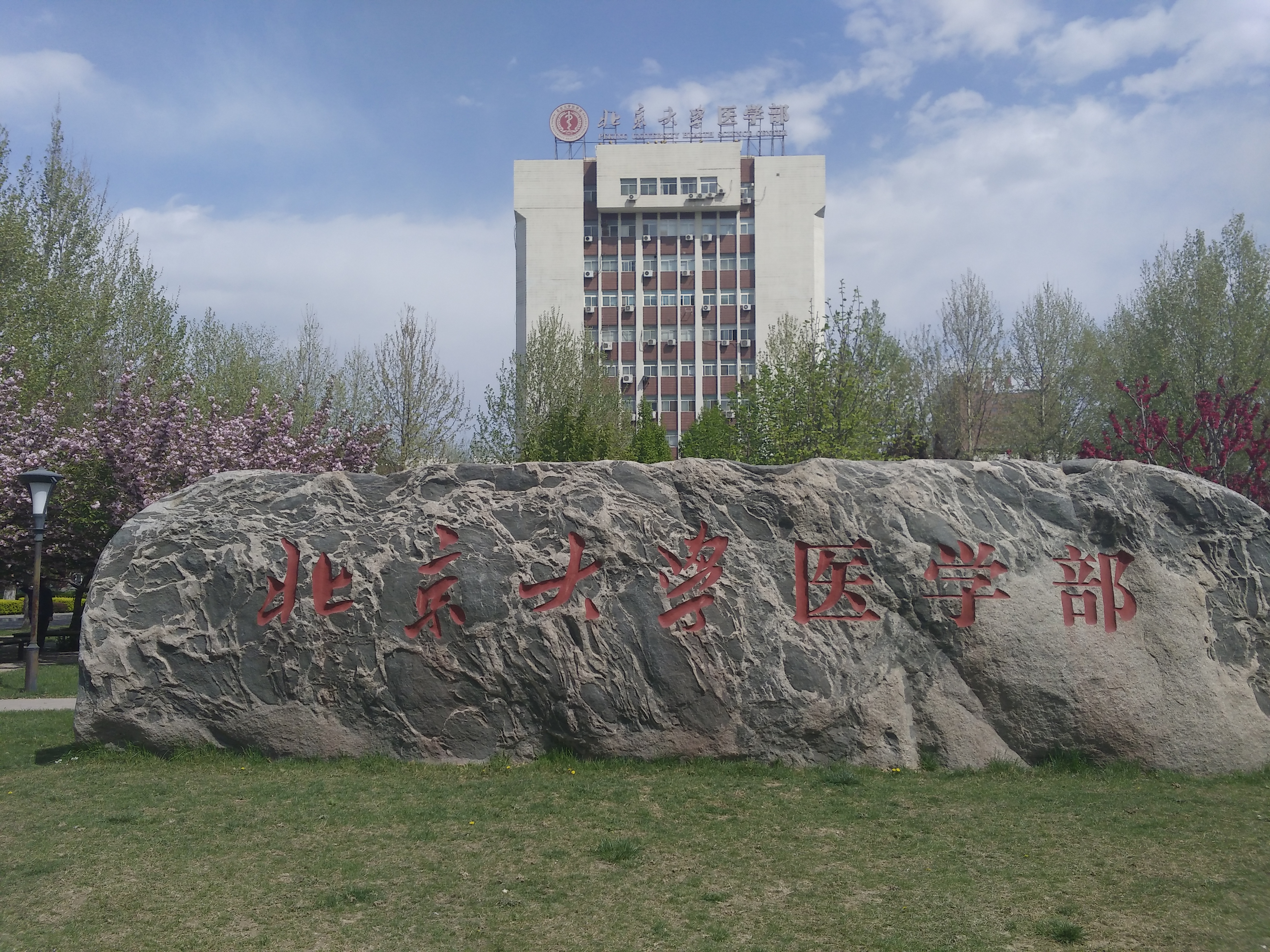 The West Gate of Peking University Health Science Center.